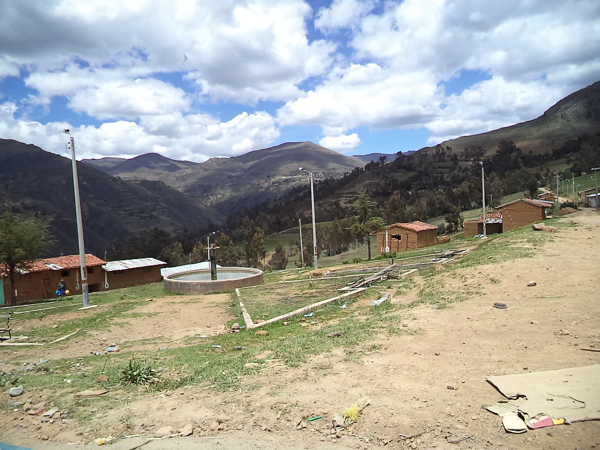 Plaza de armas